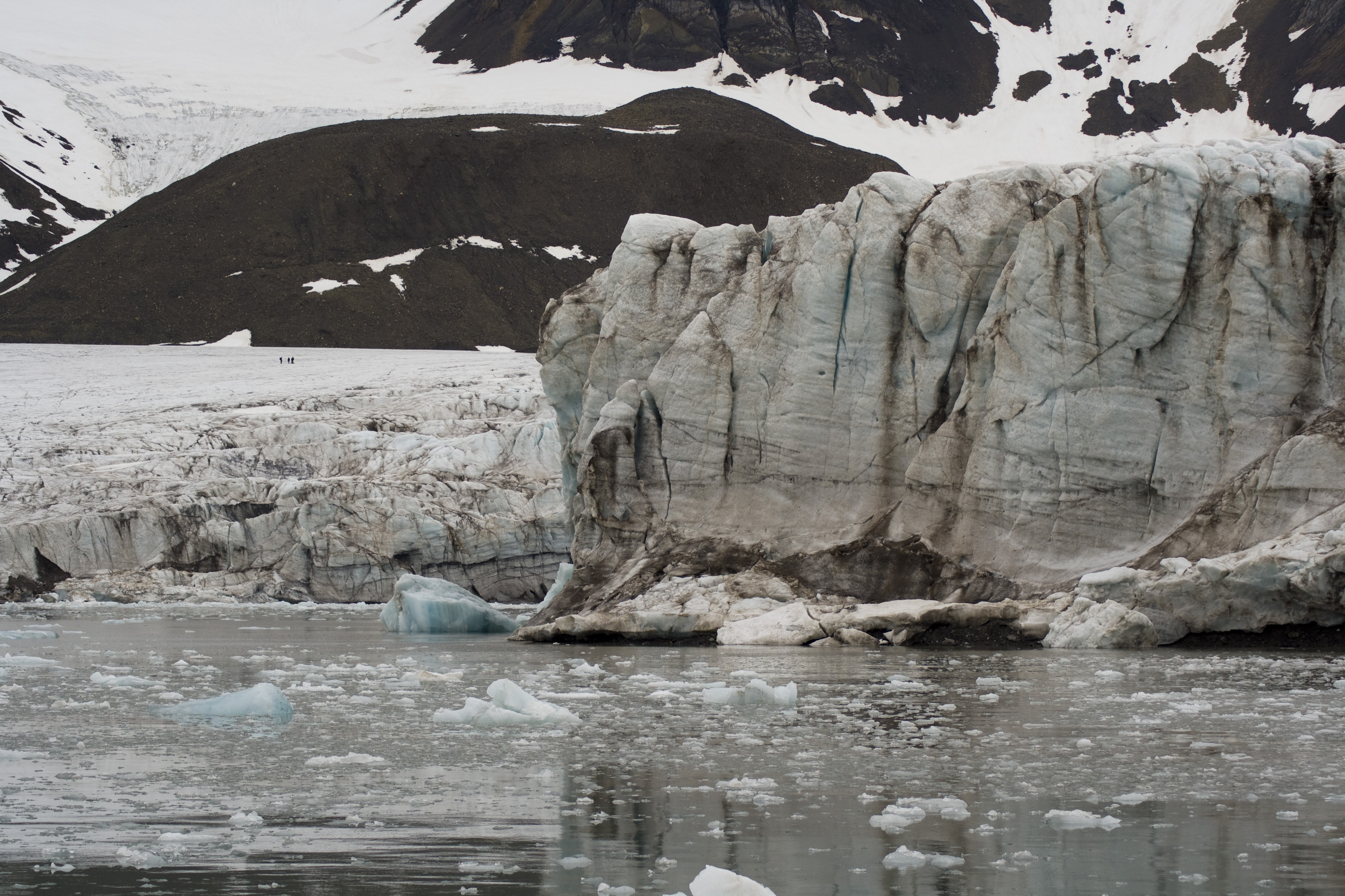 Esmark glacier, Svalbard